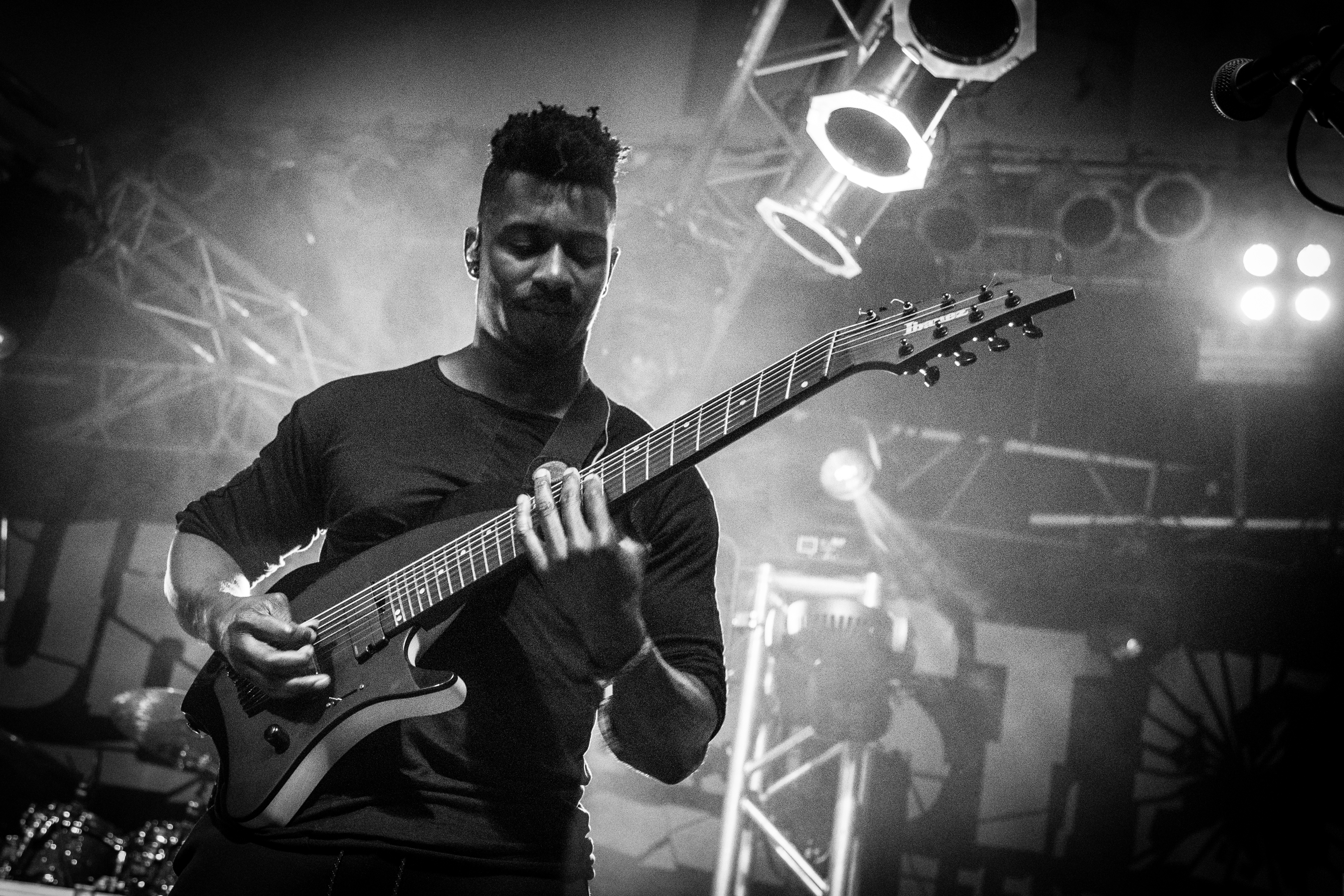 Animals As Leaders live at the Euroblast Festival in Cologne, 2016